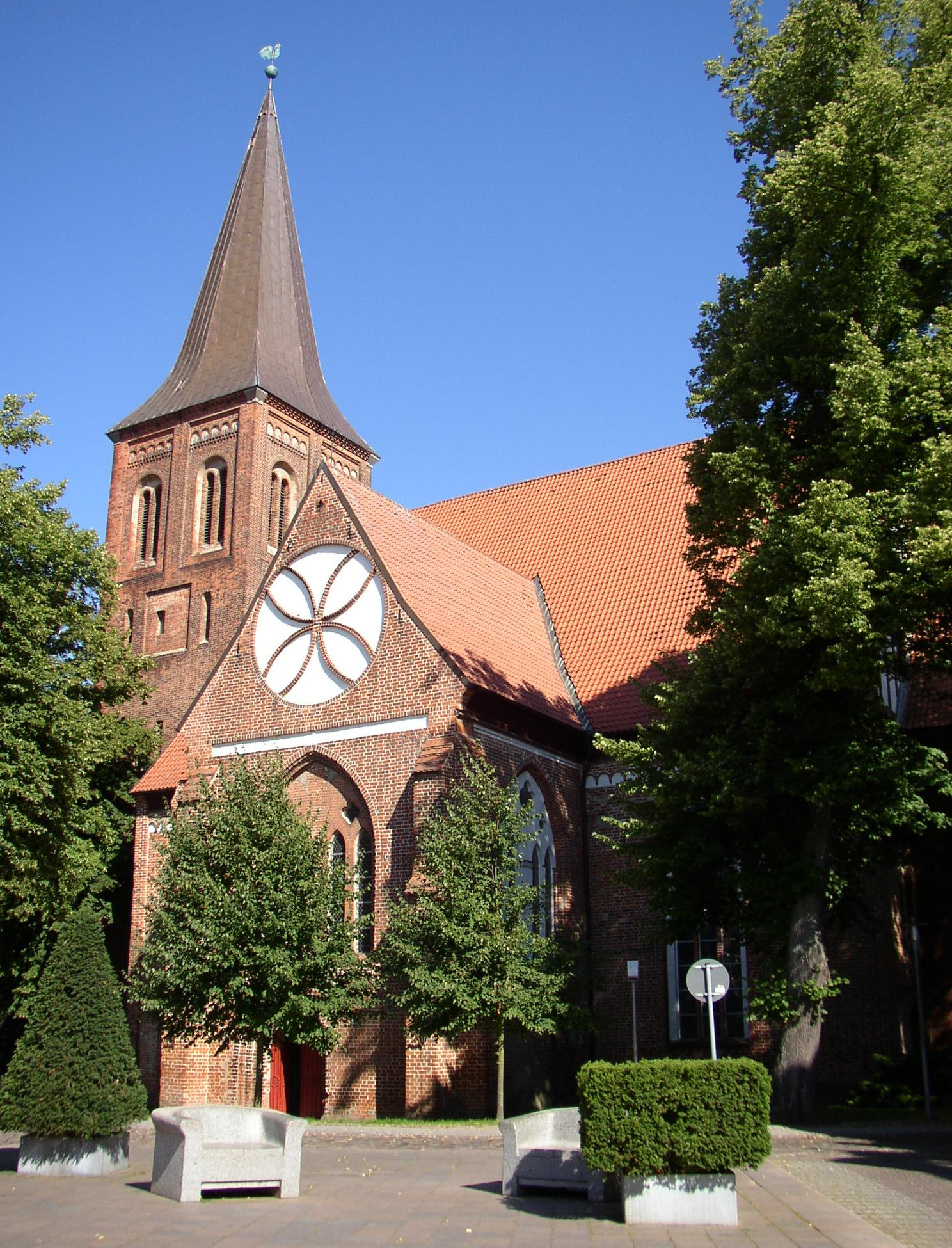 St. Bartholomew's church in Wittenburg in Mecklenburg-Western Pomerania, Germany